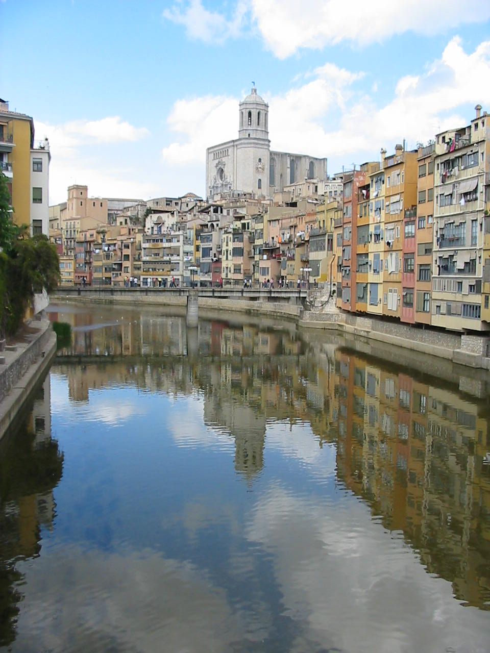 From the catalan wikipedia [1]. Author: [2].